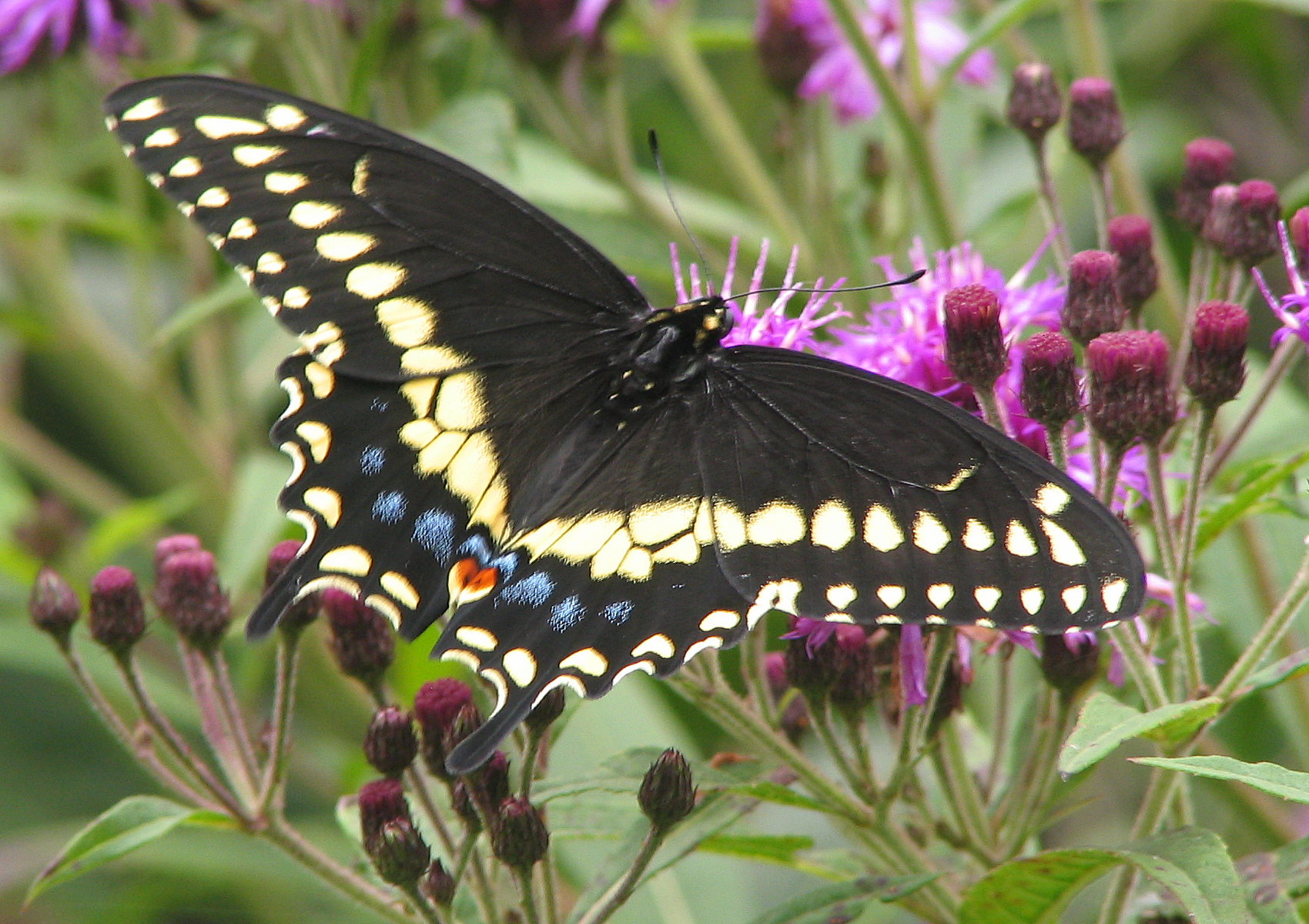 Photograph of an Black Swallowtailen (Papilio polyxenes en ). Photo taken at the Chanticleer Garden.